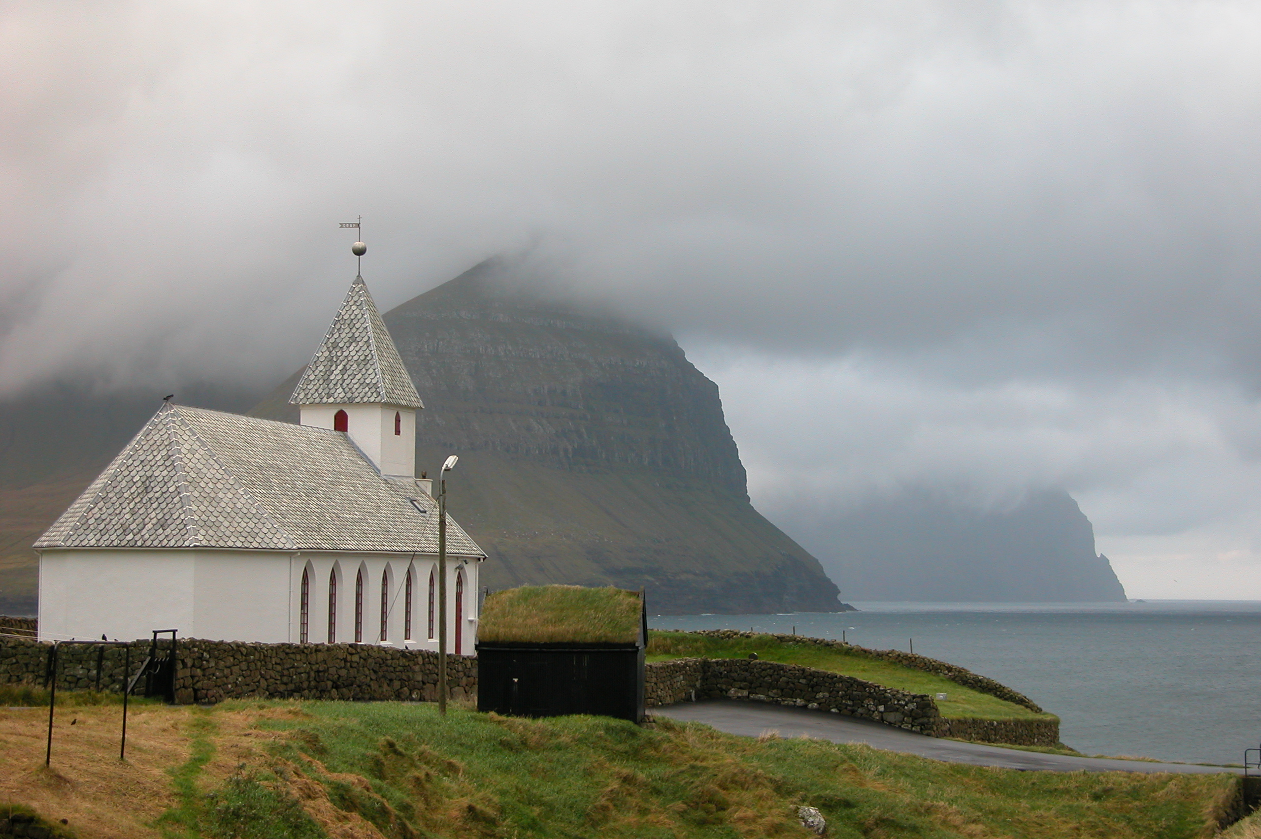 Curch of Vidareidi, Faroe islands